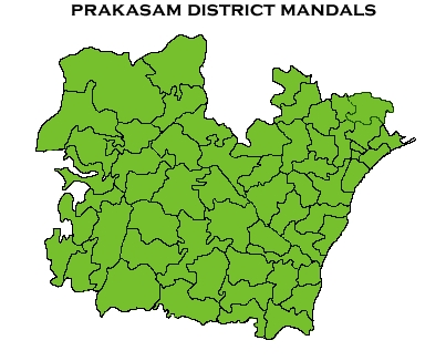 Prakasam district mandals outline map